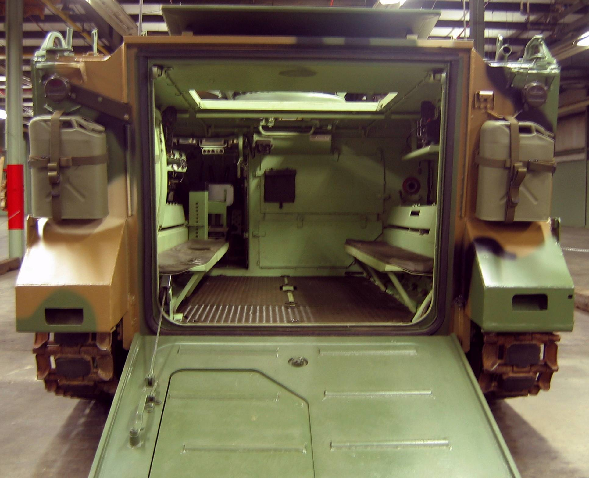 Interior view of an M113 armored personnel carrier